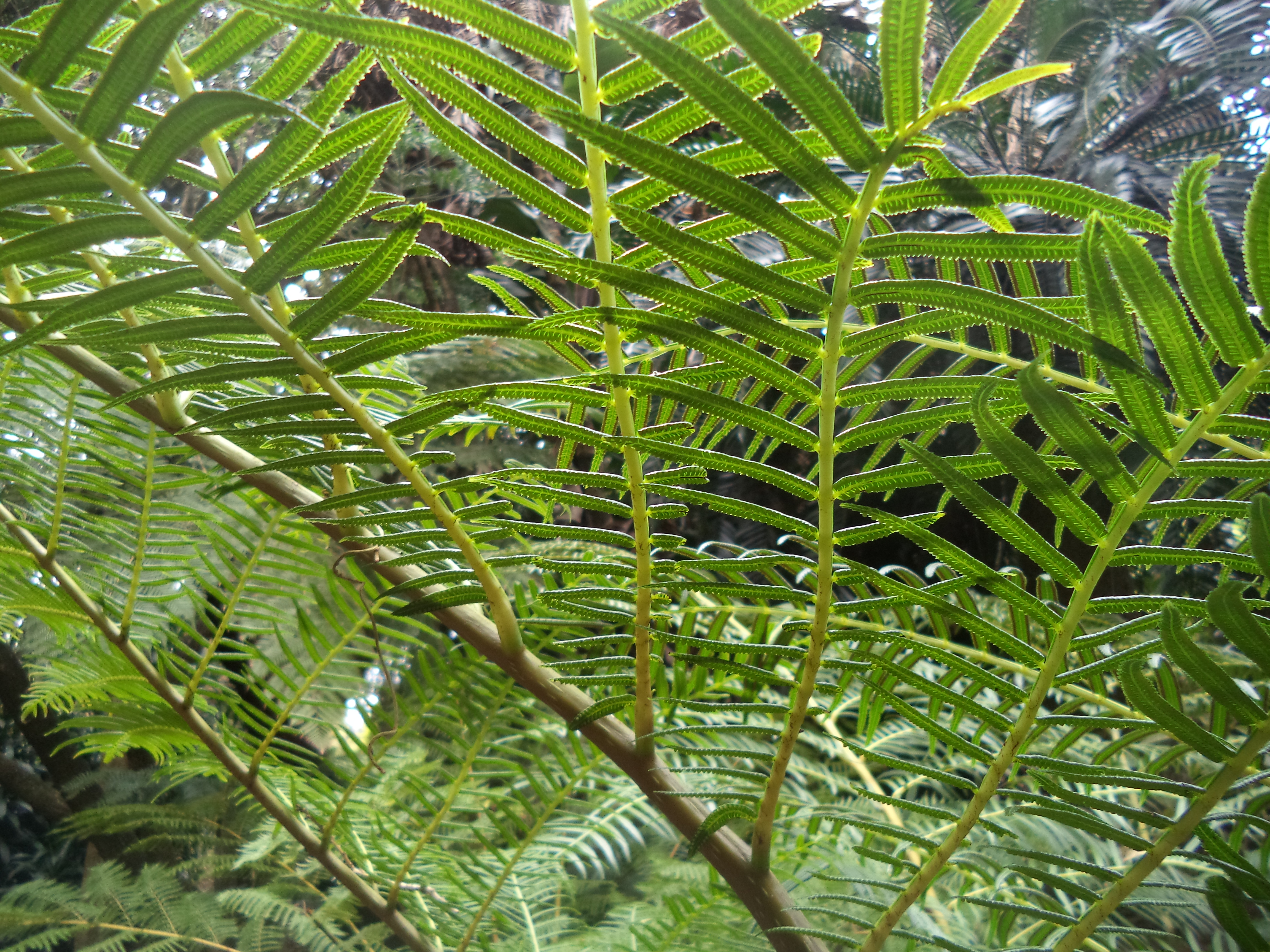 Leafs of the Marattia fraxinea plant in Kirstenbosch botanical garden